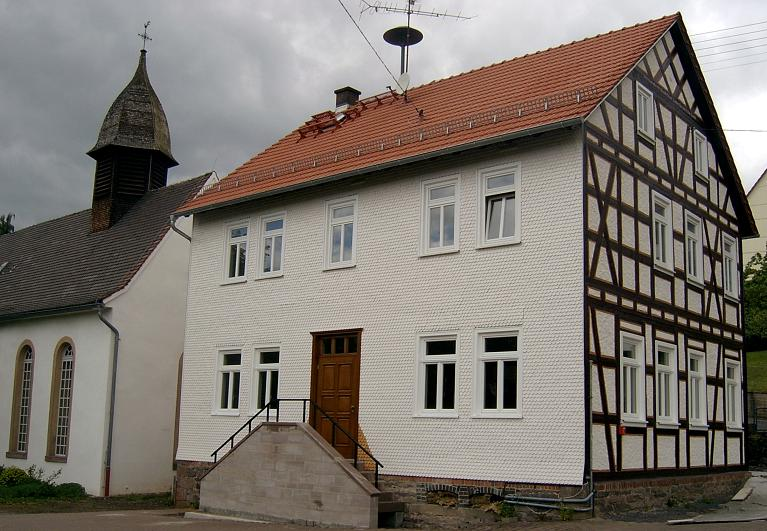 Old school building in Heisters, built from 1897 to 1899, today used as a community center.